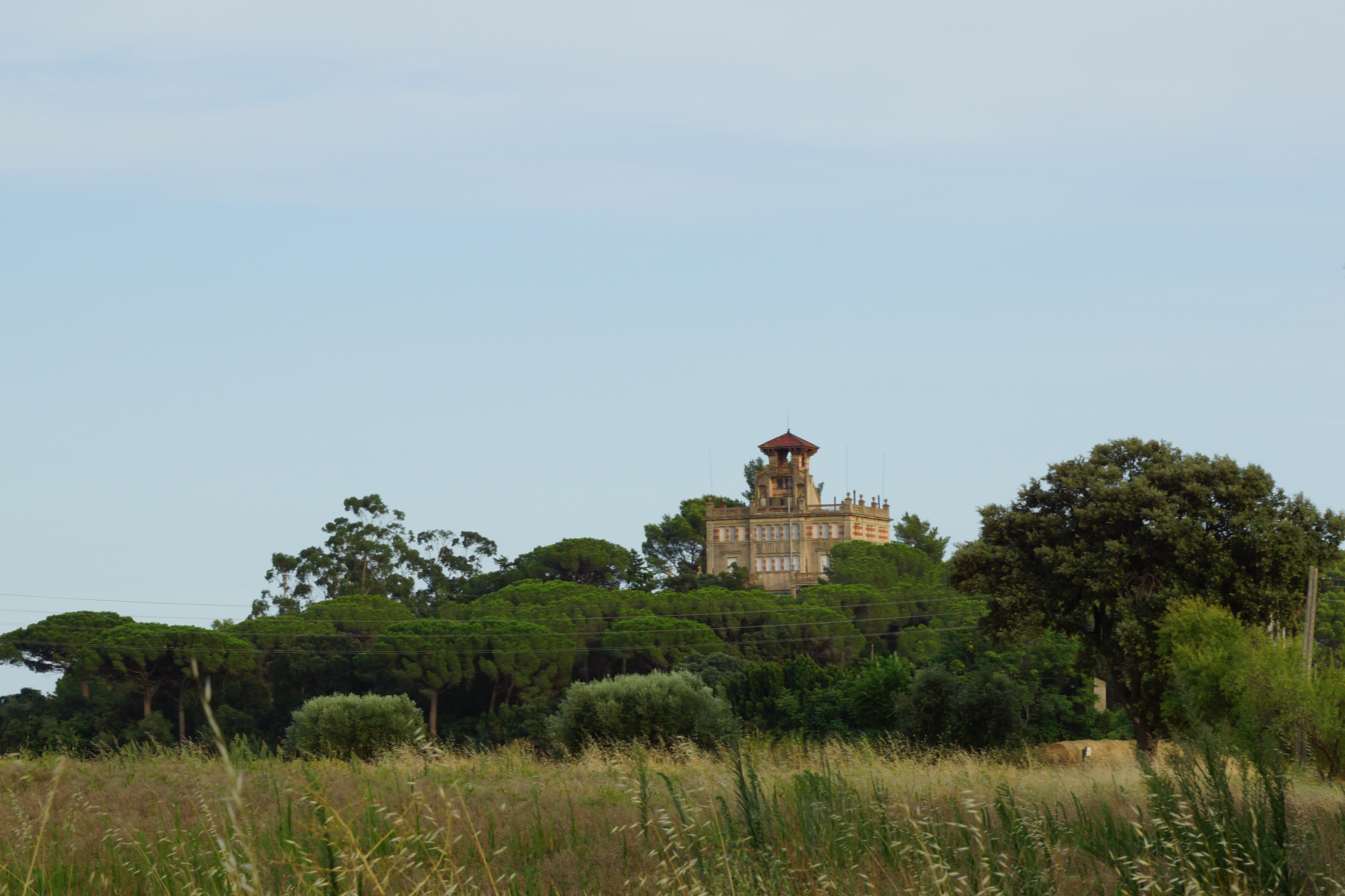 Calonge, Catalonia: Torre Roura